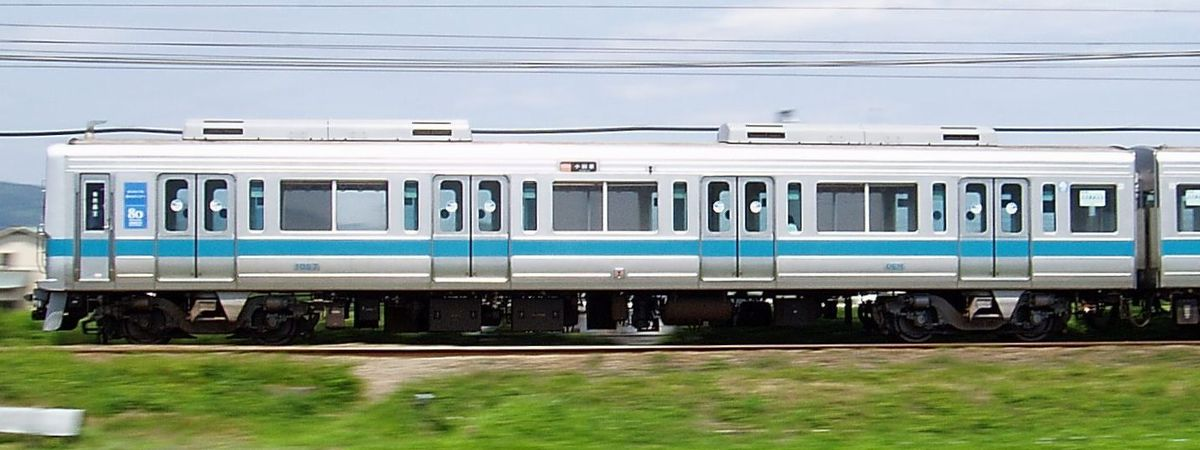 Odakyu Electric Railway Company, EMU Type 1000 between Kayama Sta. and Tomizu Sta.